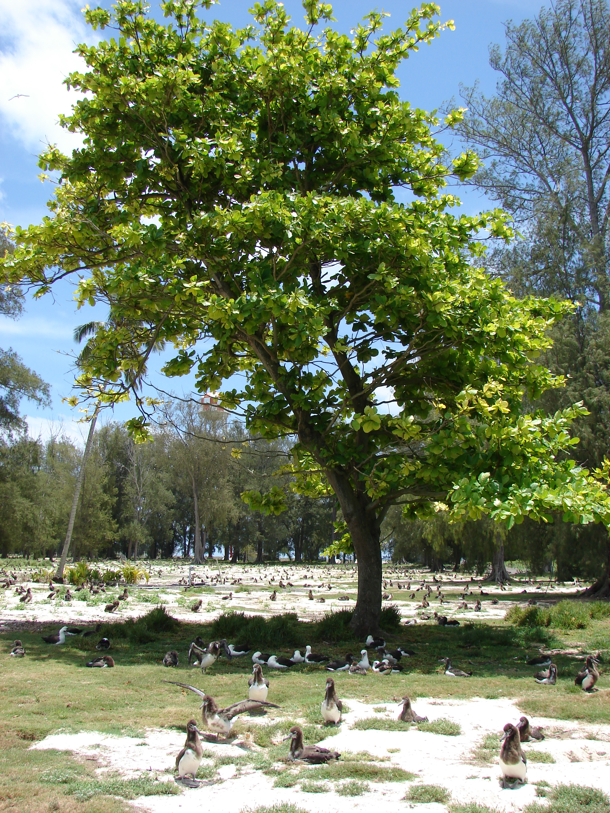 Terminalia catappa (habit with and Laysan albatross). Location: Midway Atoll, Ave Maria Sand Island